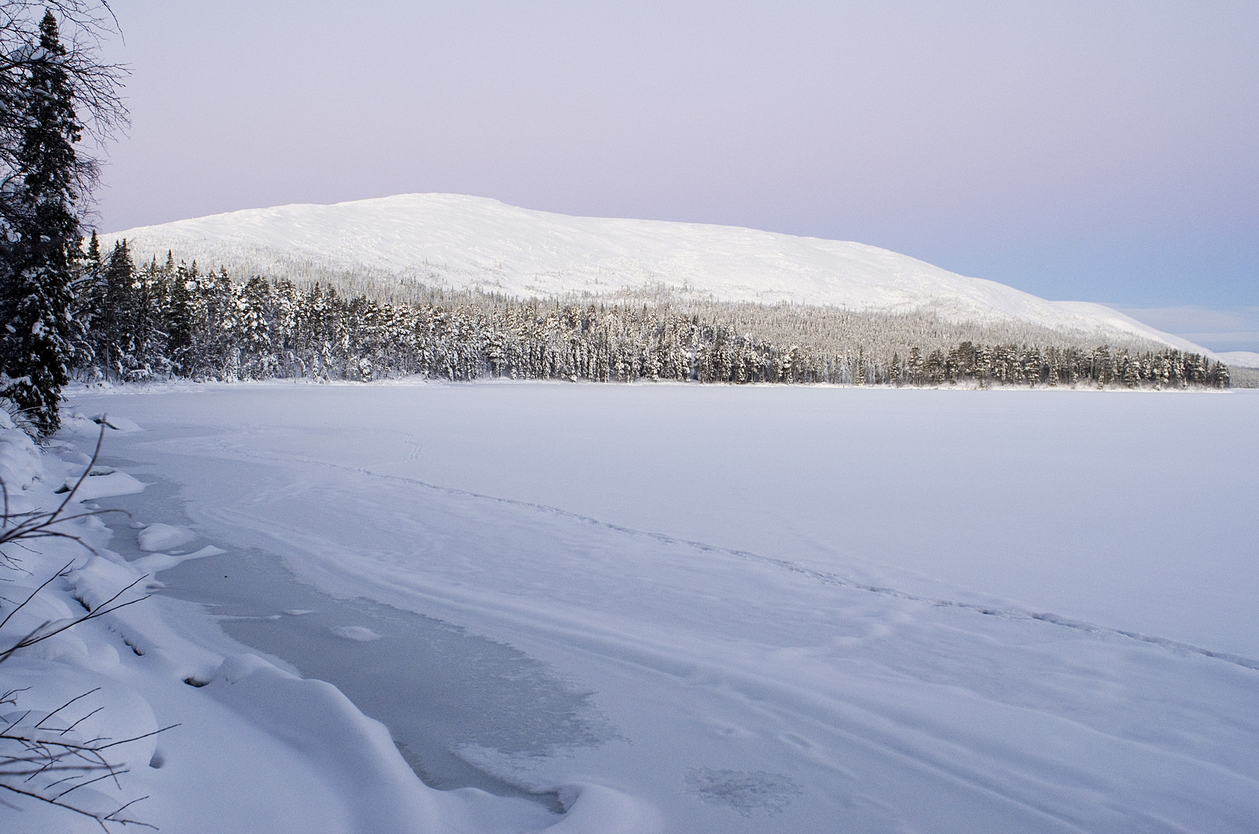 Lake Pallasjarvi and hills of Pallastunturi in Pallas-Yllästunturin National Park, Lapland, Finland.